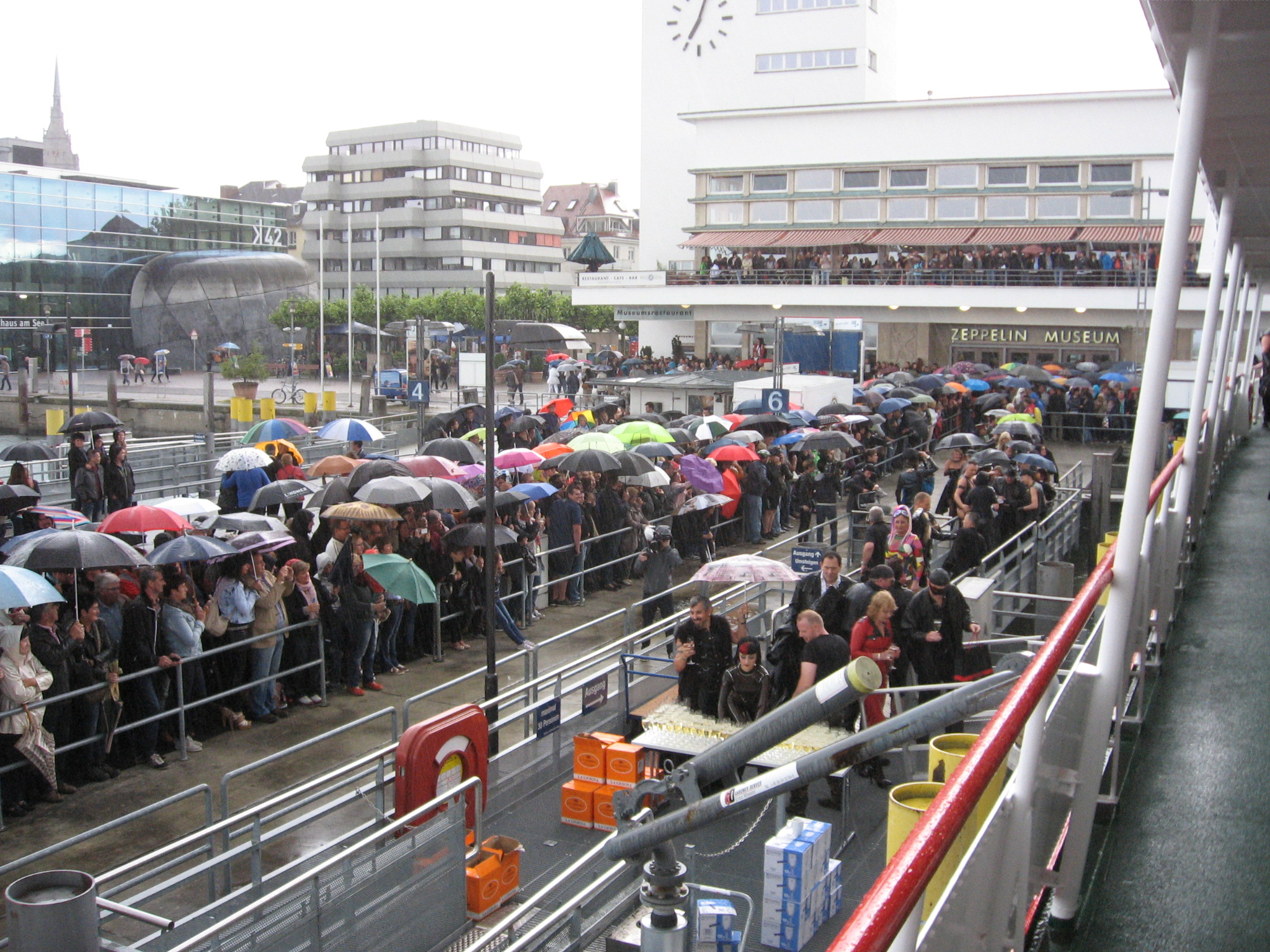 Besucher der Party Torture Ship gehen zur MS Schwaben. Rund 2.000 Zuschauer im Hafen von Friedrichshafen beobachten dies. Bild von der MS Schwaben aufgenommen.